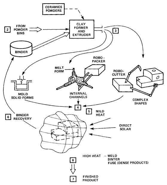 Original caption: Metal clays and pottery manufacturing. Category:Advanced Automation for Space Missions